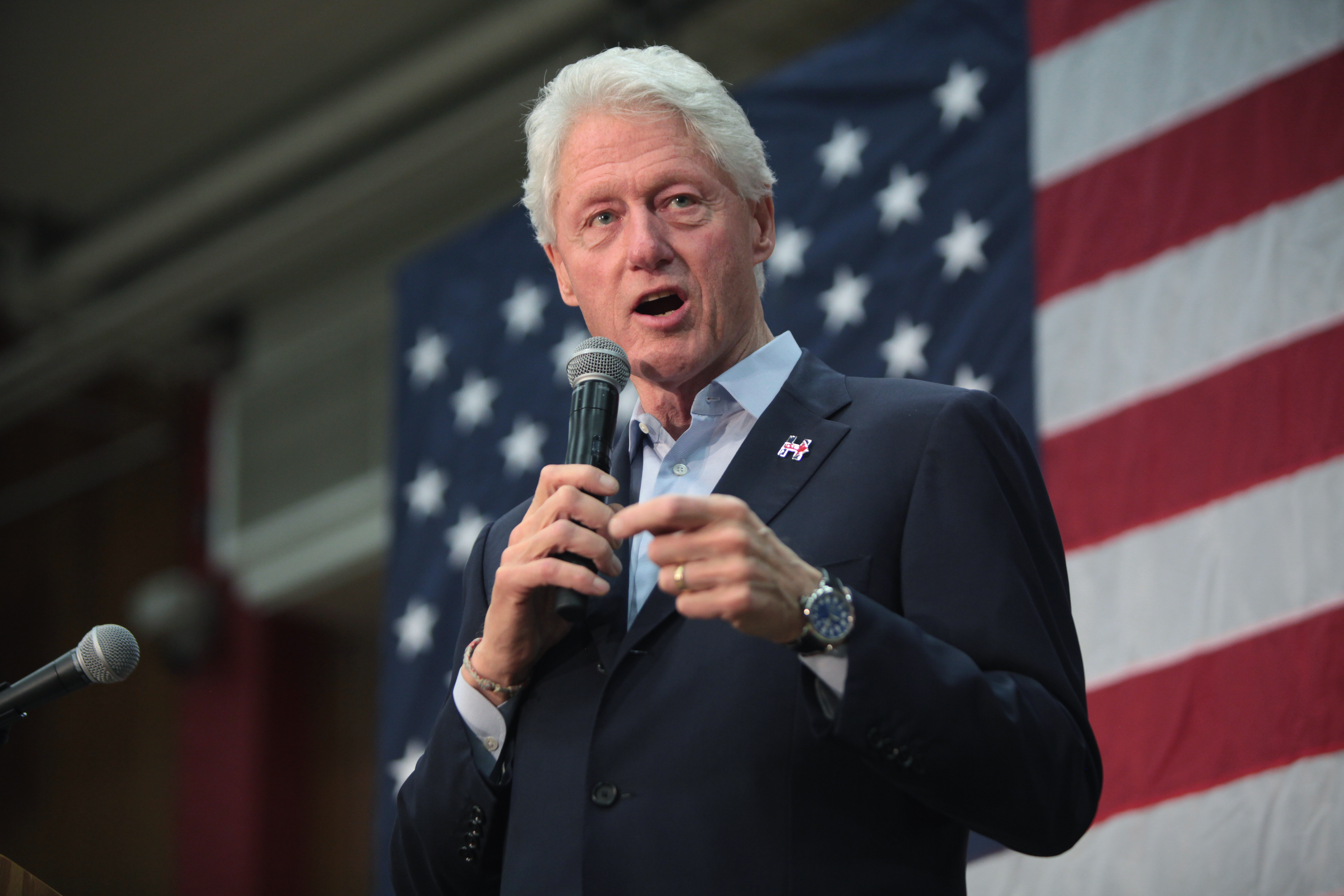 Bill Clinton speaking at a rally in Phoenix, Arizona.